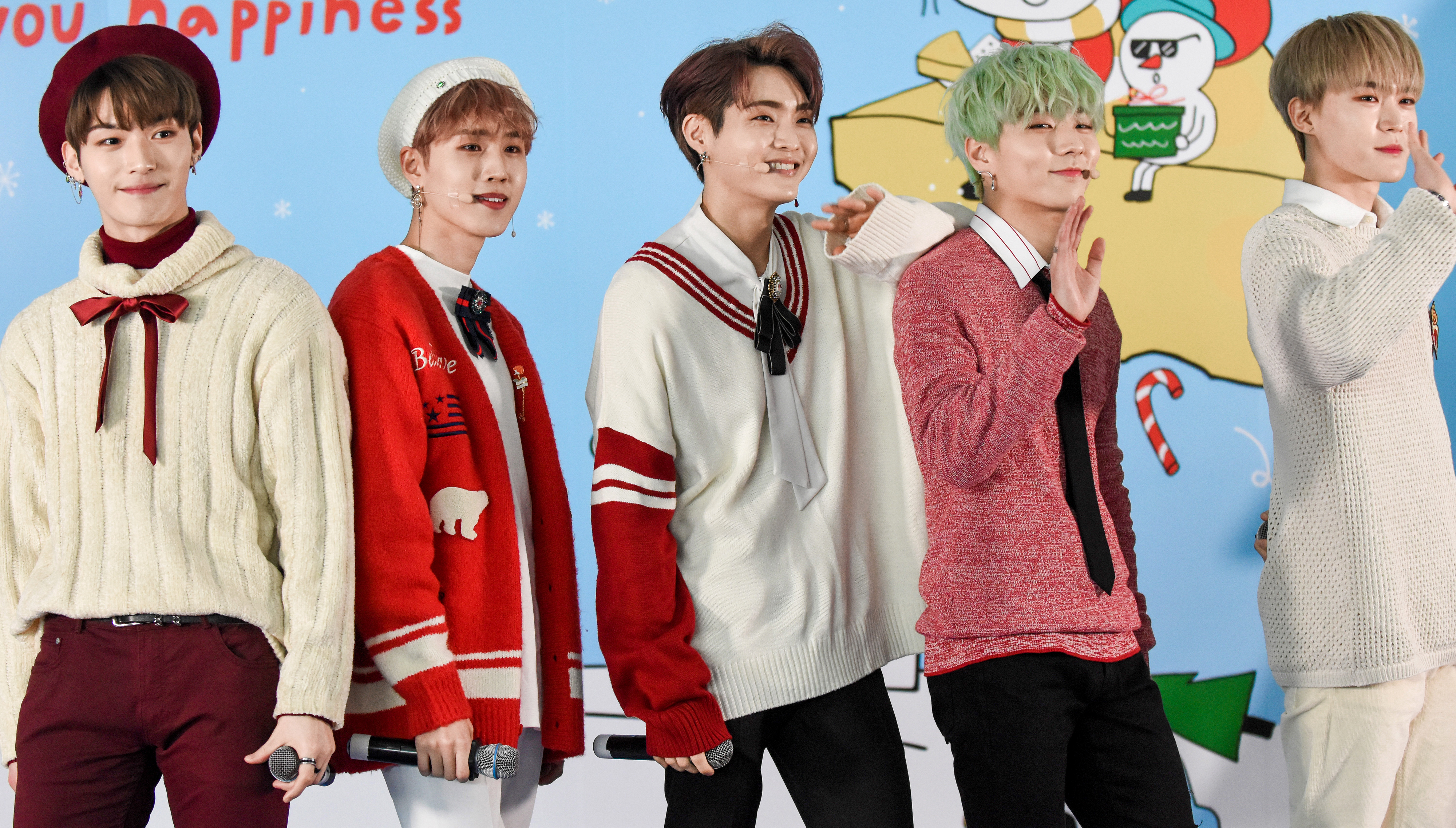 Seven O'Clock performing at the C-Festival at COEX on December 25, 2019.